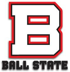 Ball State logo